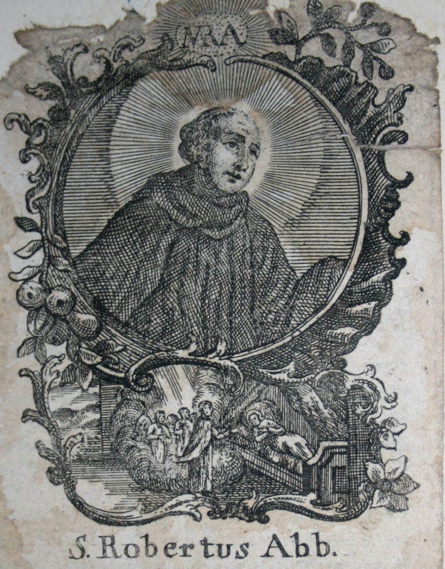 Robert of Molesme is one of the founding fathers of the Cistercian Order. He lived in the 12th Century. This is a baroque portrayal of him.